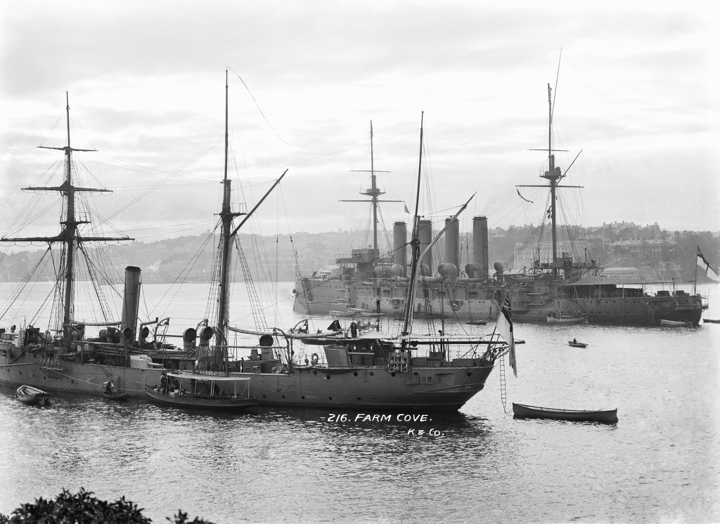 Photograph showing two British warships in Sydney Harbour. In foreground is possibly sloop HMS Clio, in background is possibly armoured cruiser HMS Euryalus.